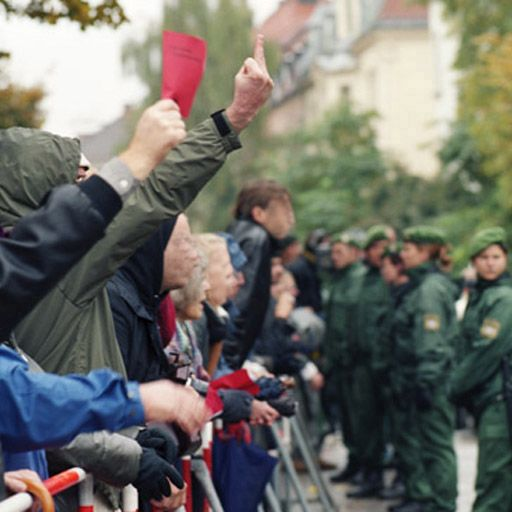 Protesters against the Wehrmacht exhibition in Munich on 12 October 2002, holding up glorified Wehrmacht propaganda